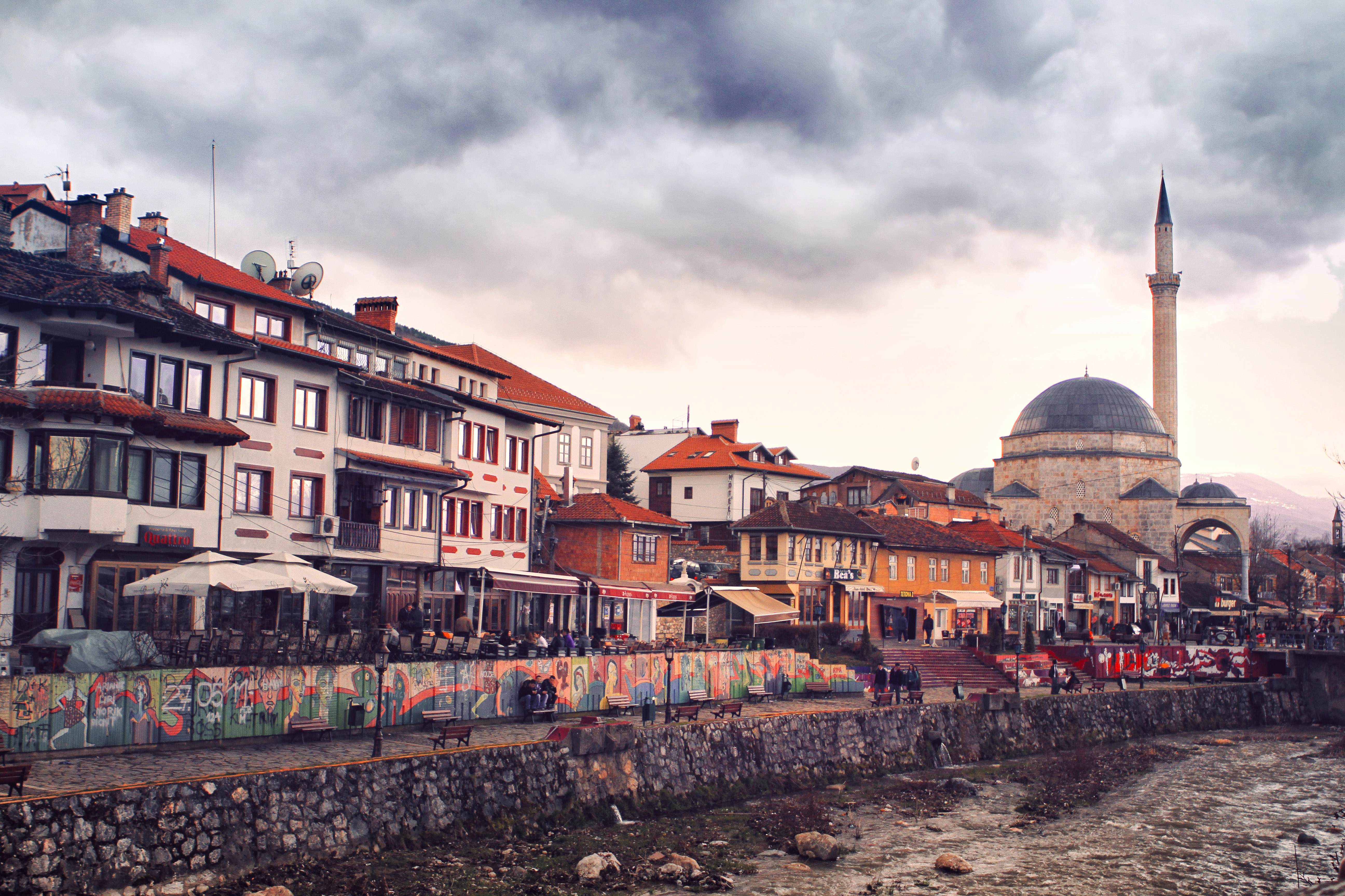 Architecture and homes are in perfect harmony with each other